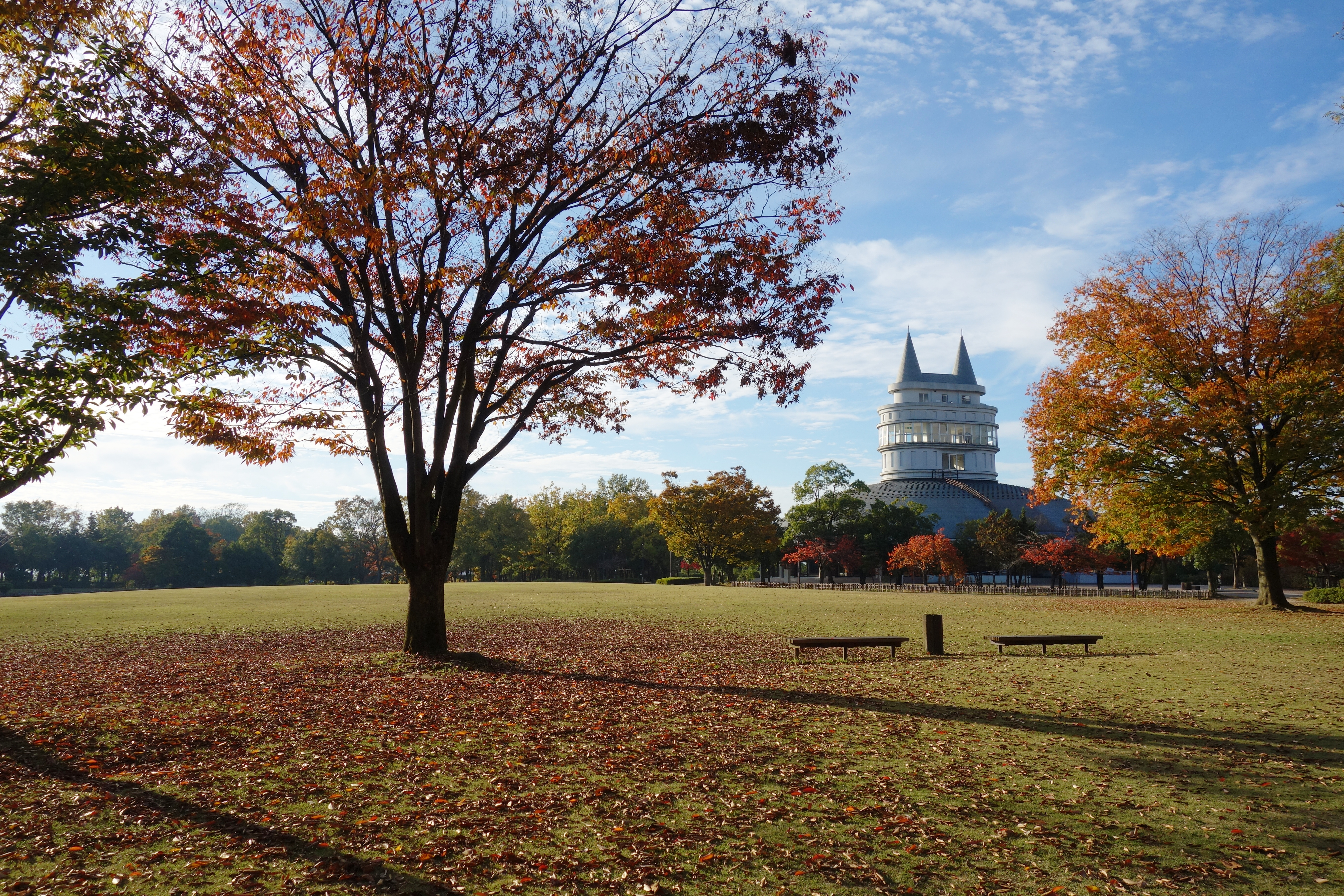 Fukui Sogo Green Center (Sakai City, Fukui Pref., Japan)